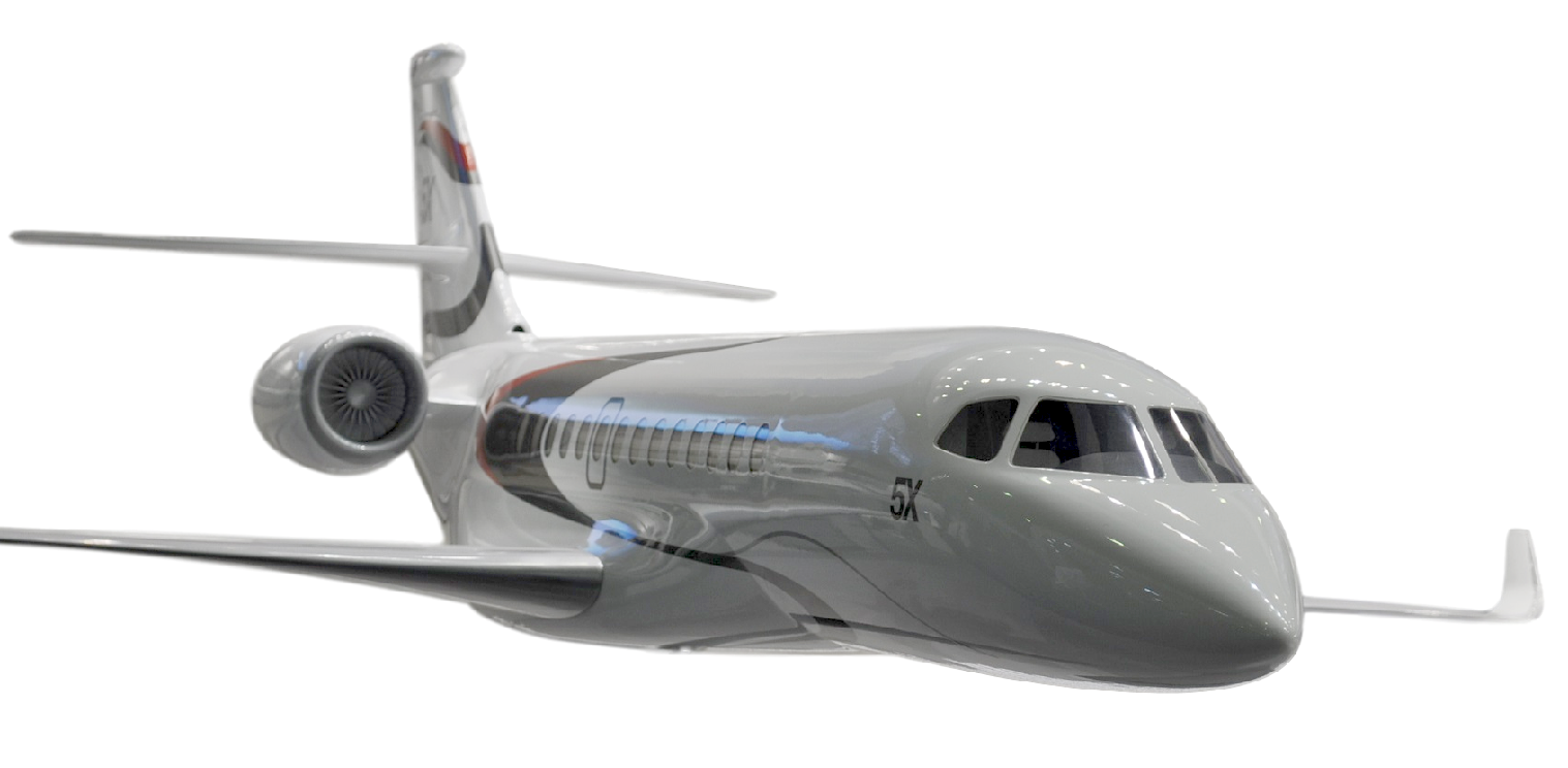 Dassault Falcon 5X model at the 2015 Paris Air Show background clipped, gamma corrected